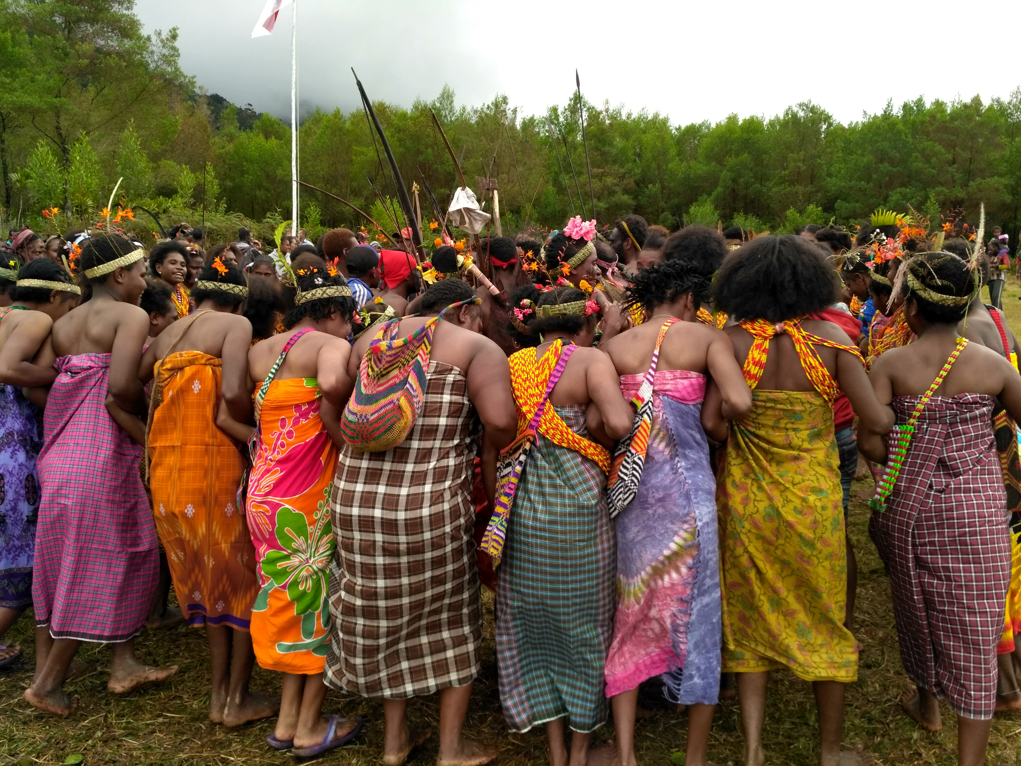 Tumbu Tanah Dance